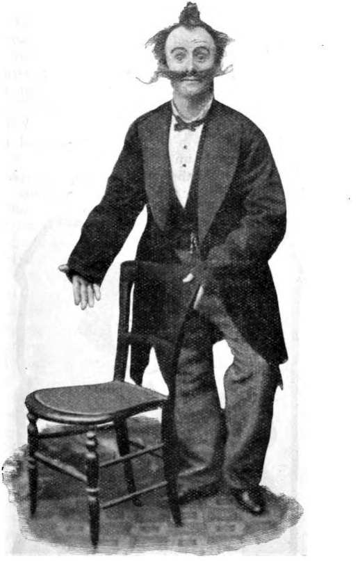 Dan Leno